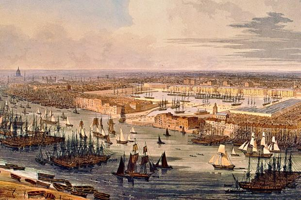 Wapping, colour engraving by Thomas & William Daniel 1803